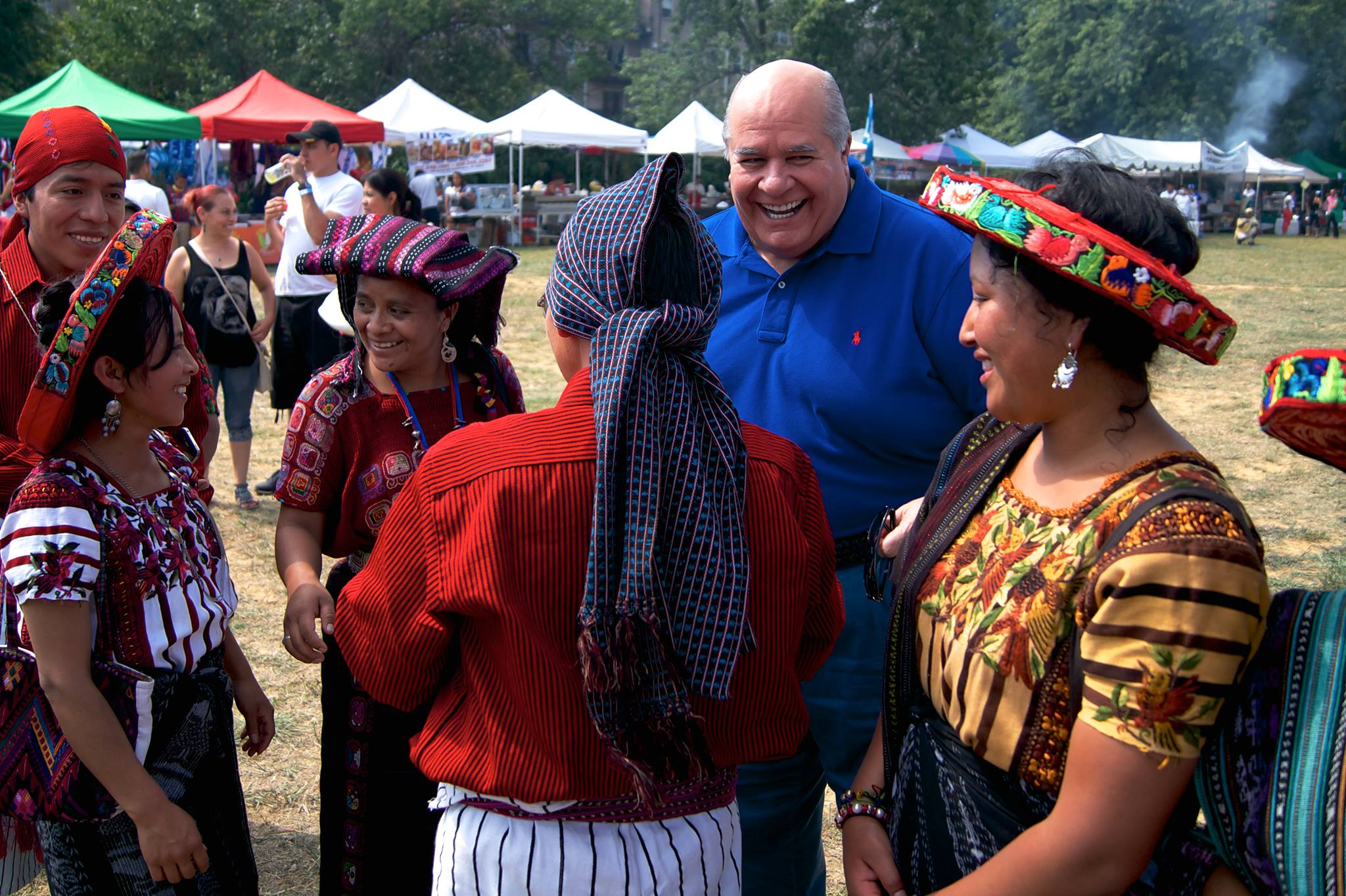 Julio Ligorria y migrantes Guatemala